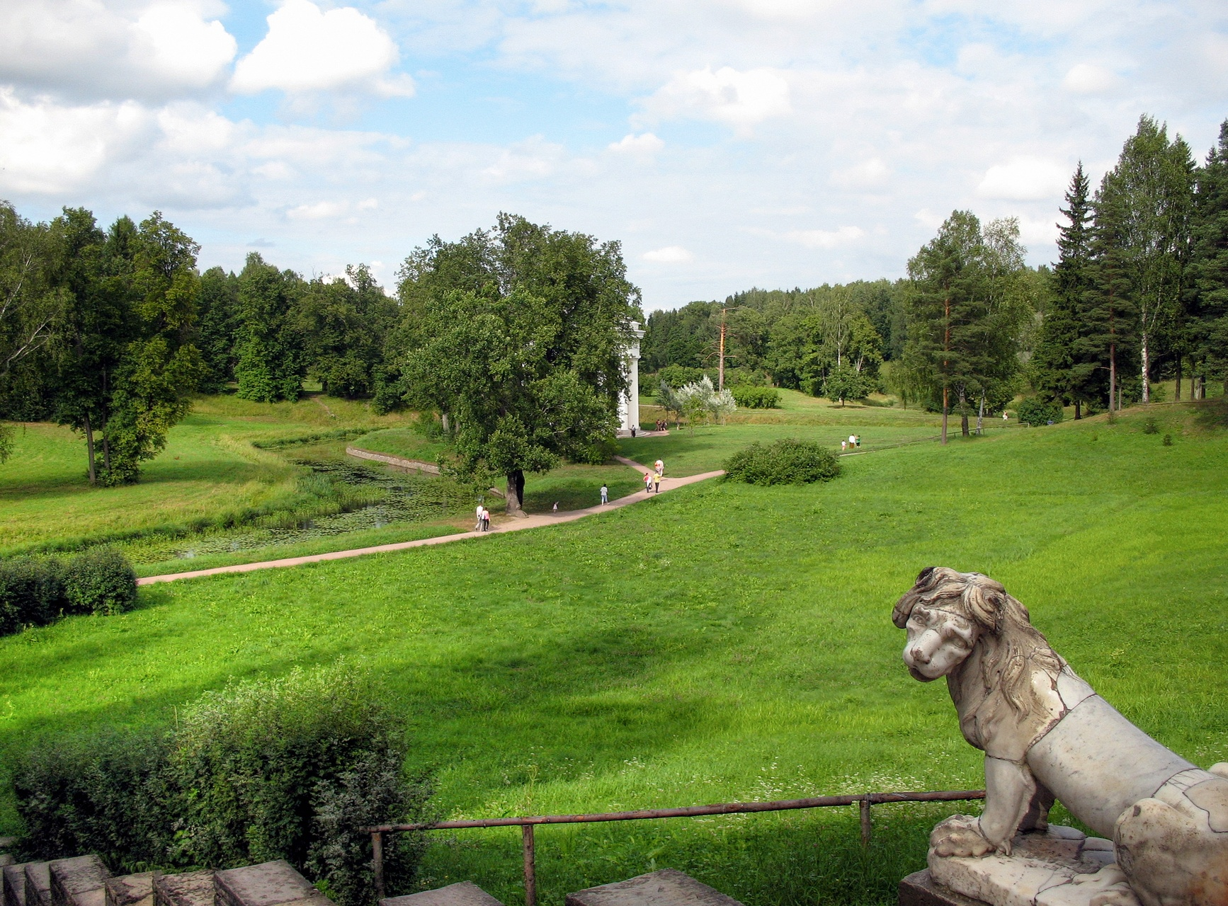 Pavlovsk town. Pavlovsk Park